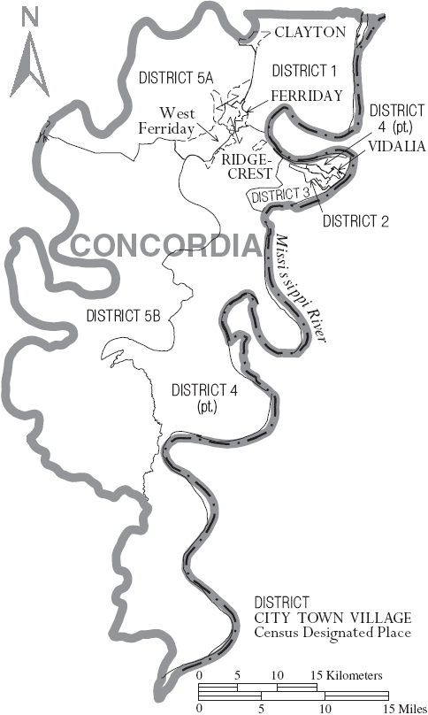 Map of Concordia Parish, Louisiana, United States with municipal and district boundaries